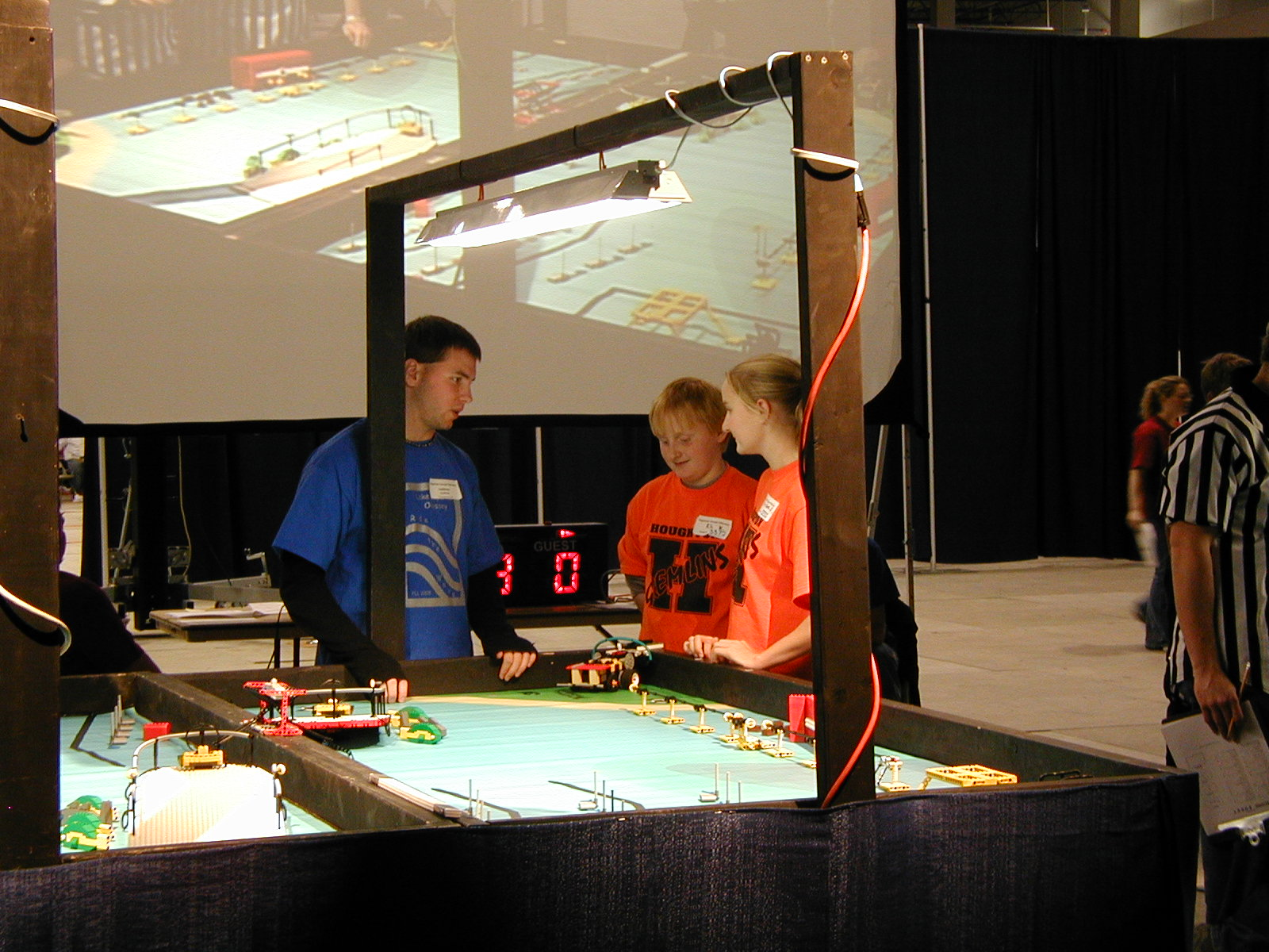 The Ocean Odyssey field for FIRST Lego League